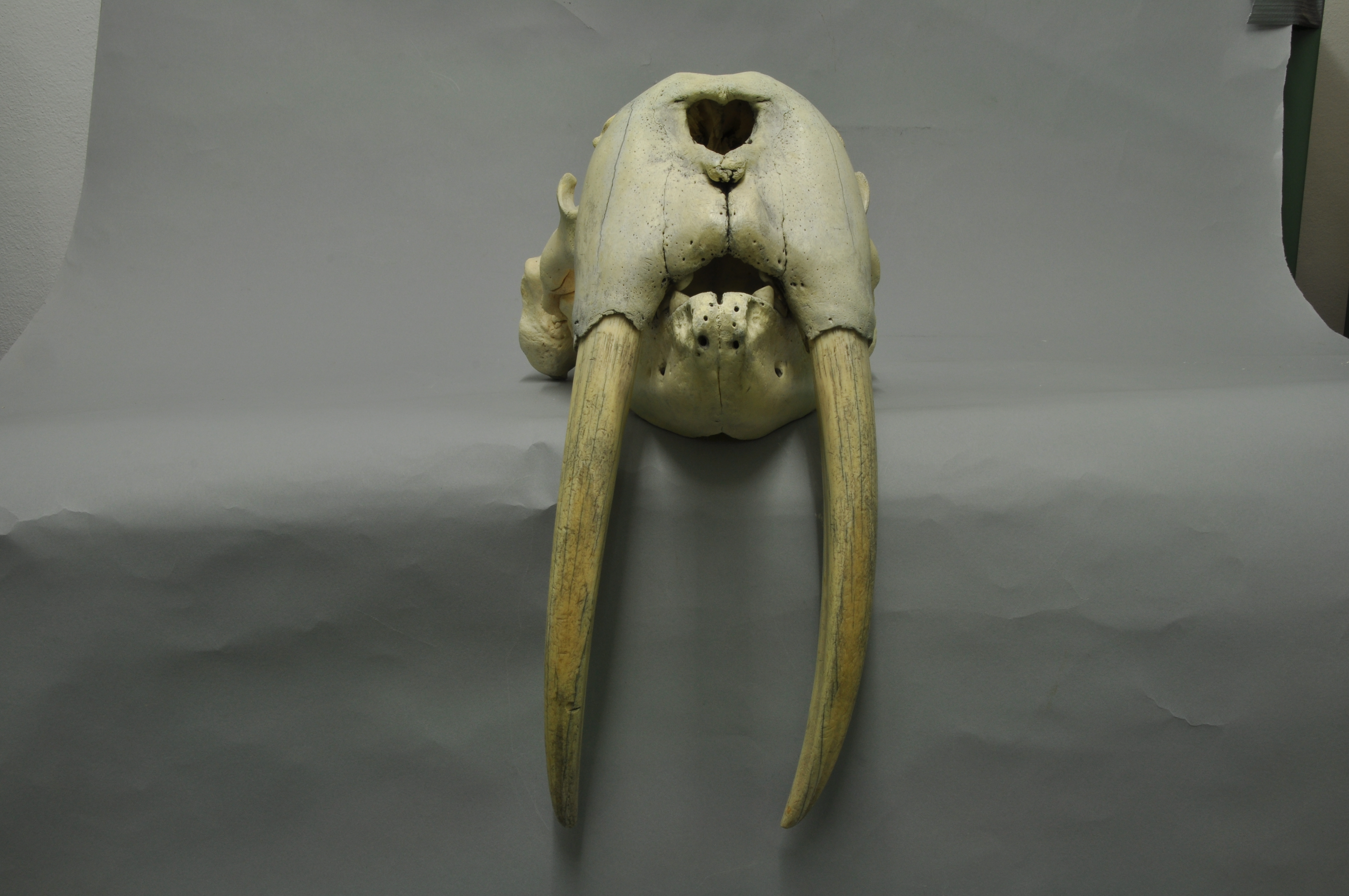 walrus , skull, Coll. Museum Wiesbaden